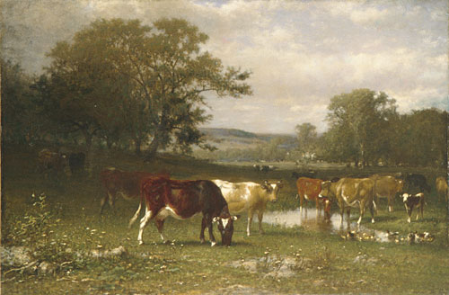 From Shifting Shade